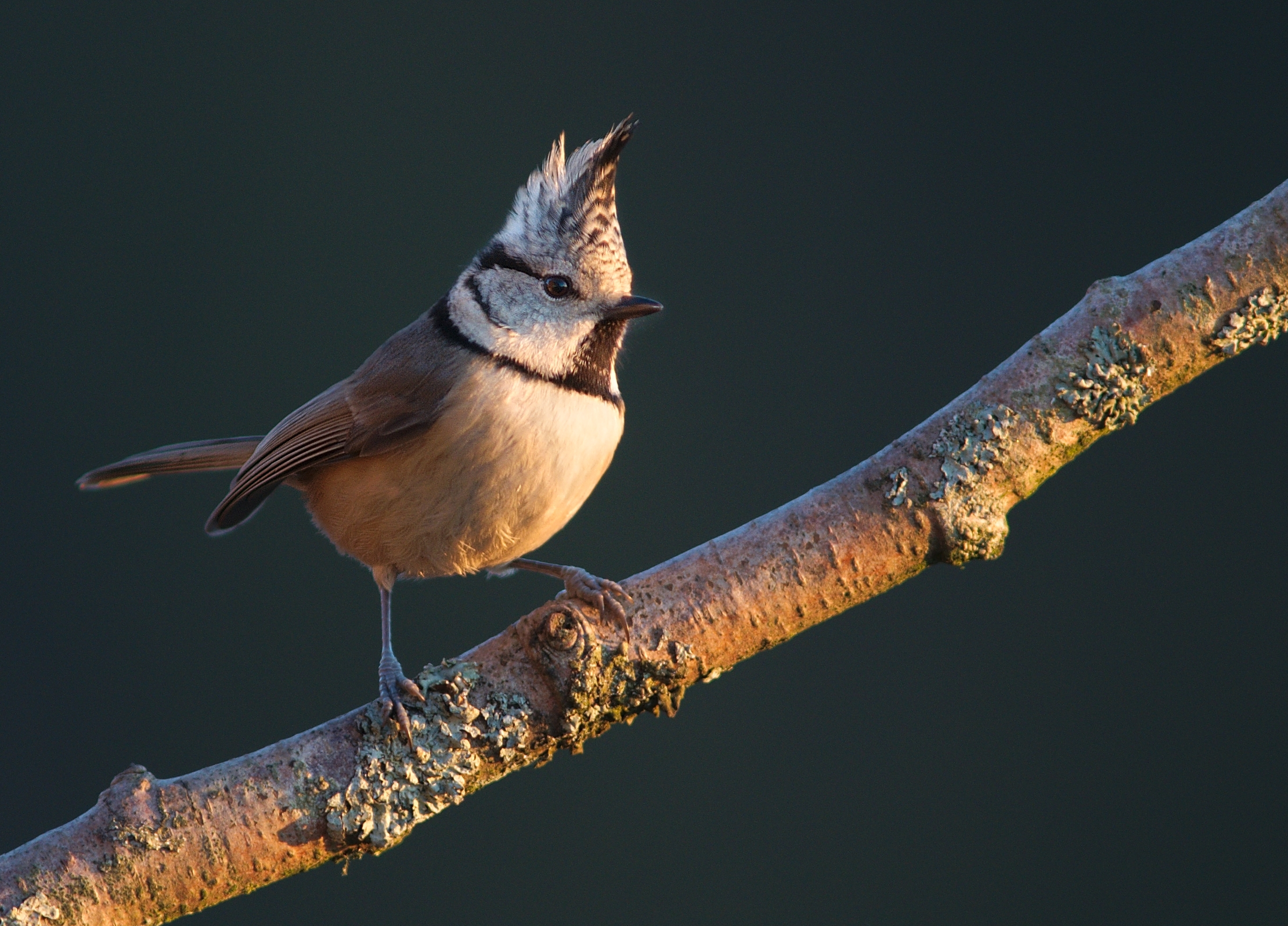 Crested Tit